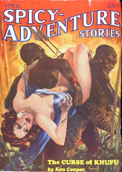 Cover of the pulp magazine Spicy-Adventure Stories (April 1935, vol. 2, no. 1) featuring "The Curse of Khufu" by Ken Cooper.